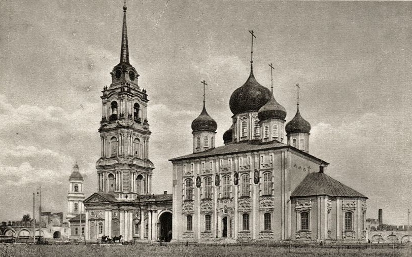 Assumption Cathedral in the Tula Kremlin